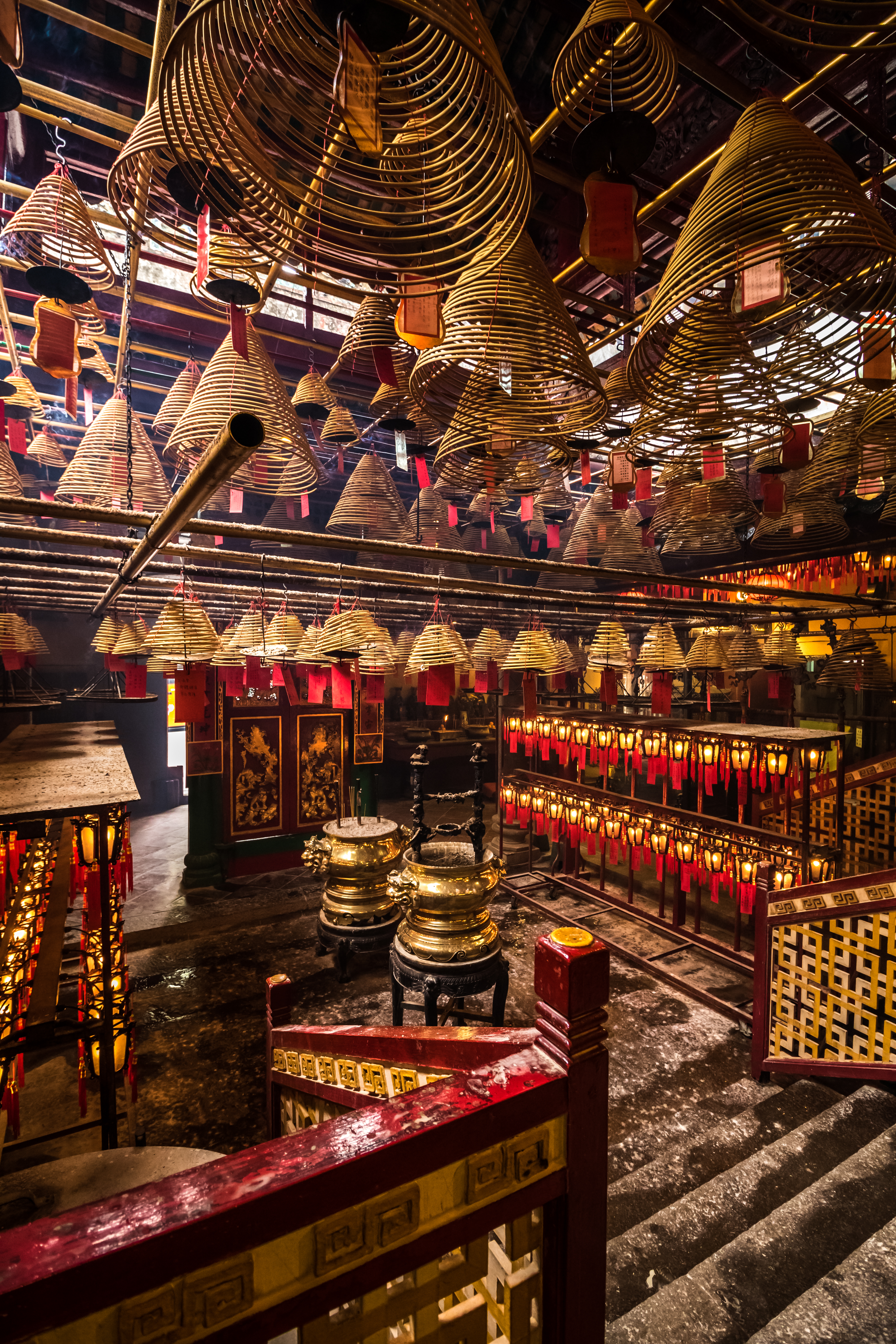 Man Mo Temple, Hollywood Road